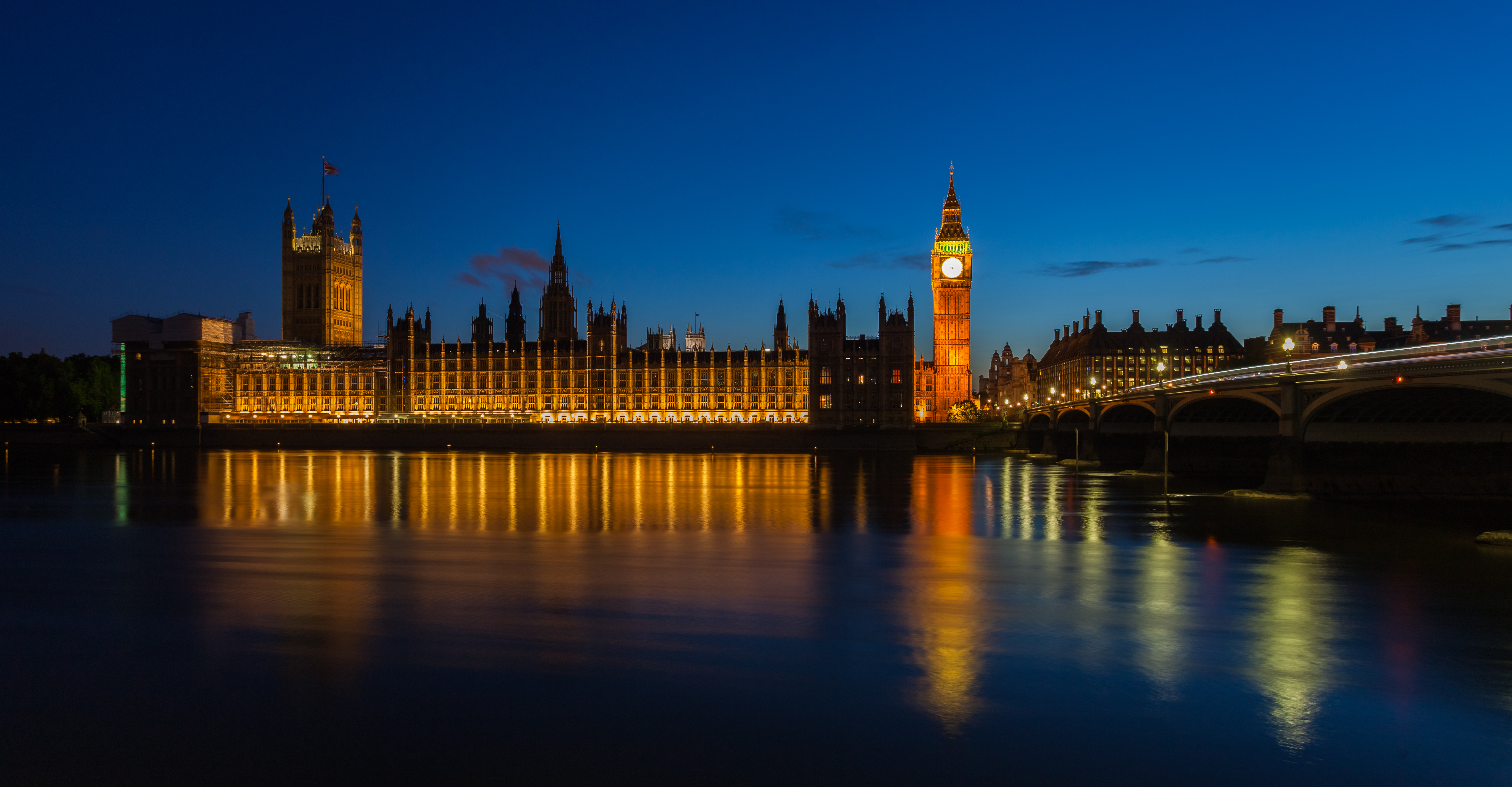 Palace of Westminster, London, England